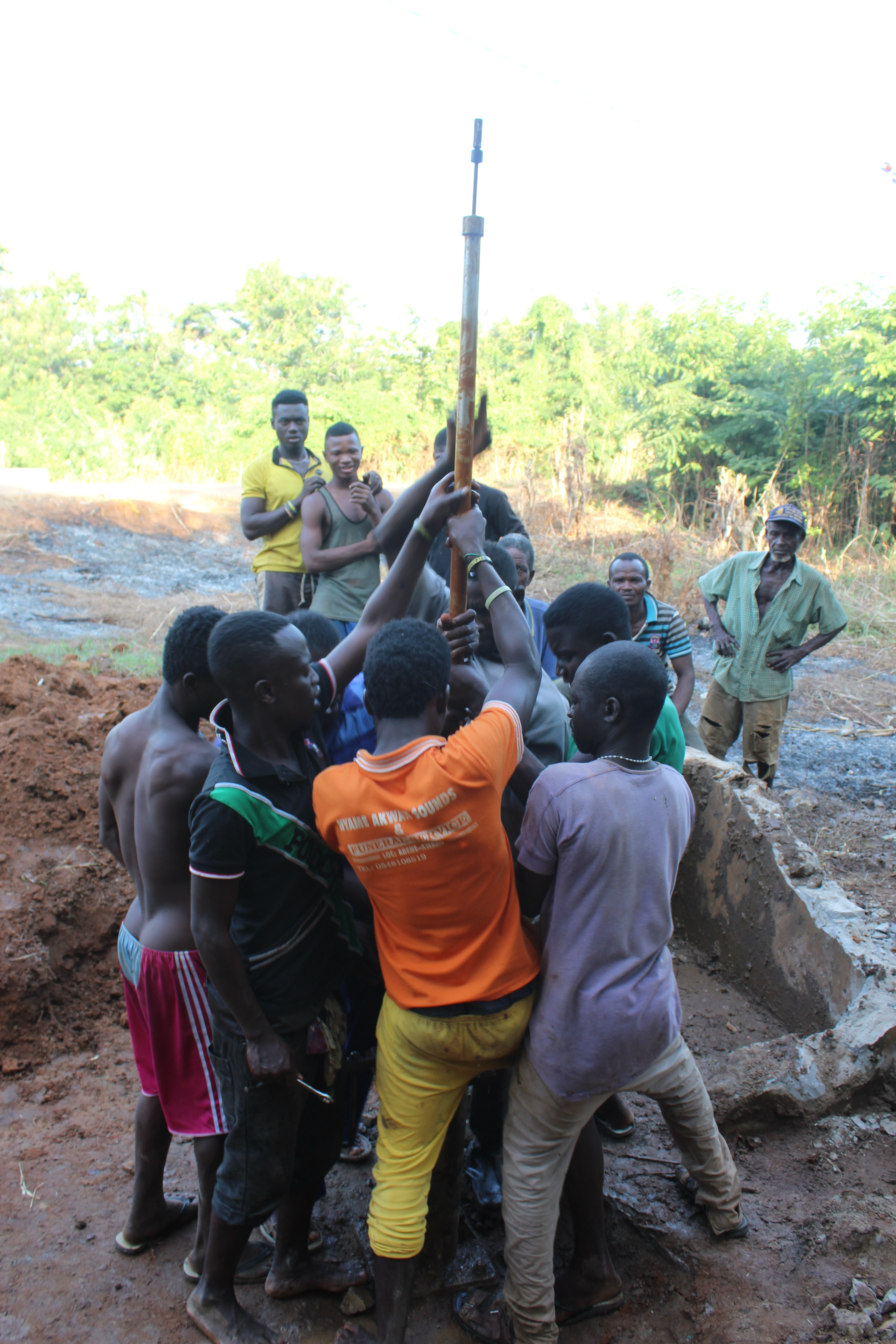 Workers and people from the nearby town helping repair a water borehole This is an image of "African people at work" from Ghana